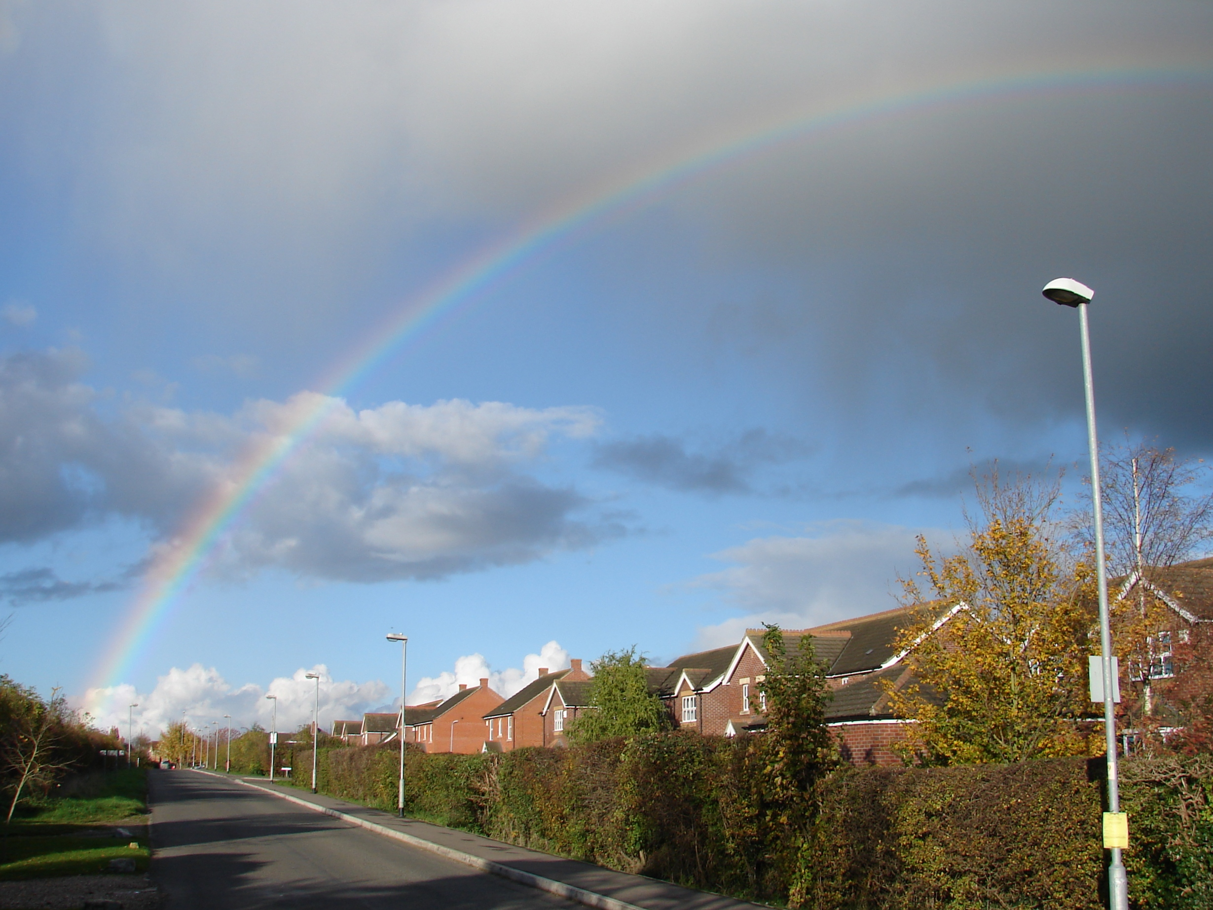 Rainbow on Northfield Road